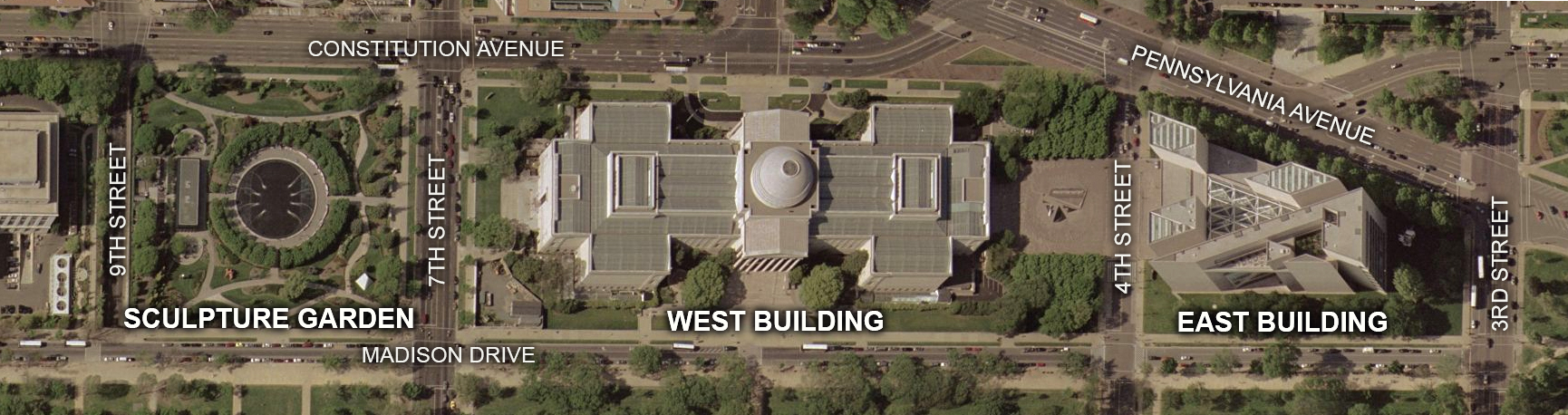 Map of National Gallery of Art grounds, Washington, D.C.